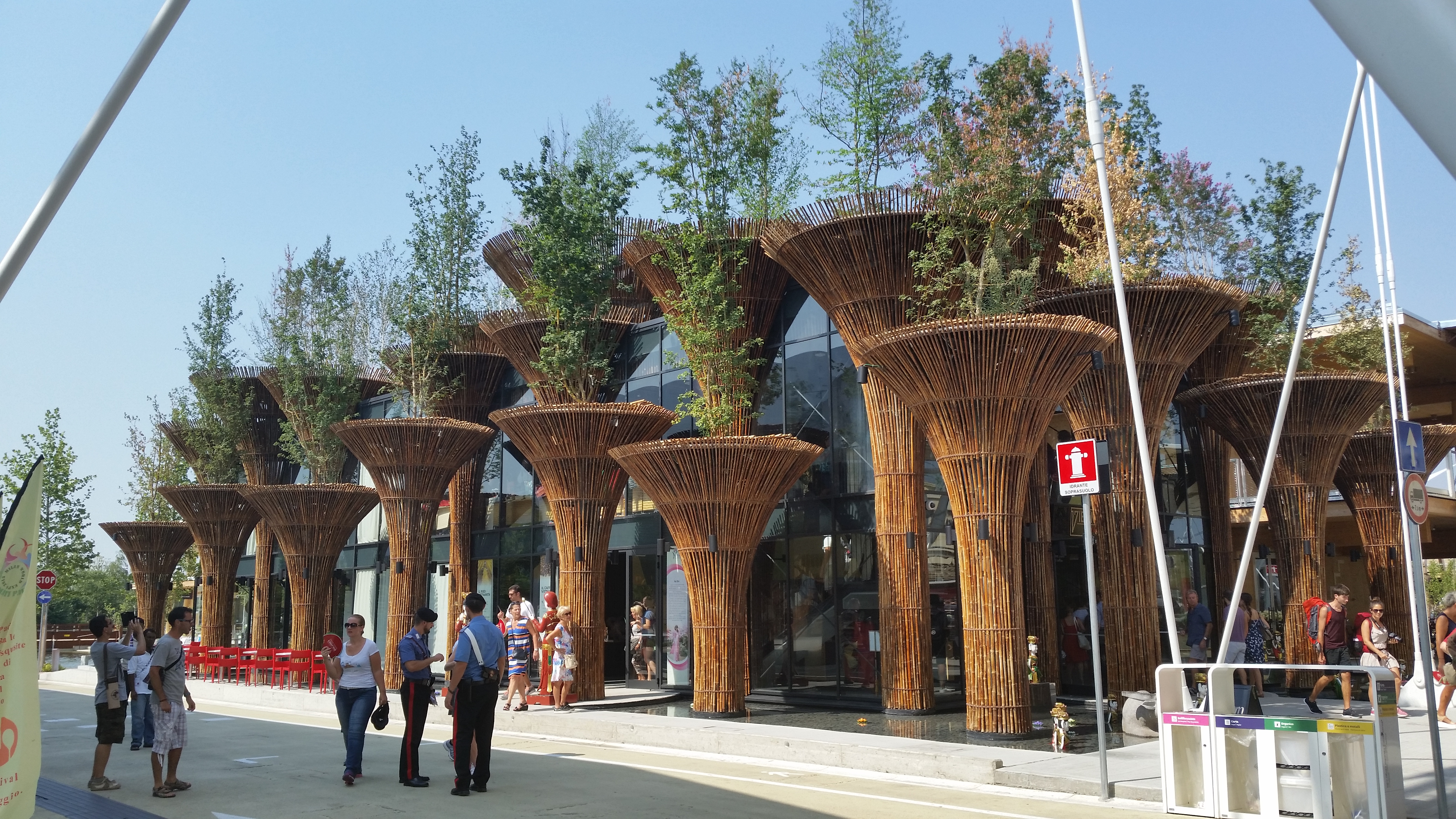 Pavilion of the Expo 2015 located in Milano (Italy)